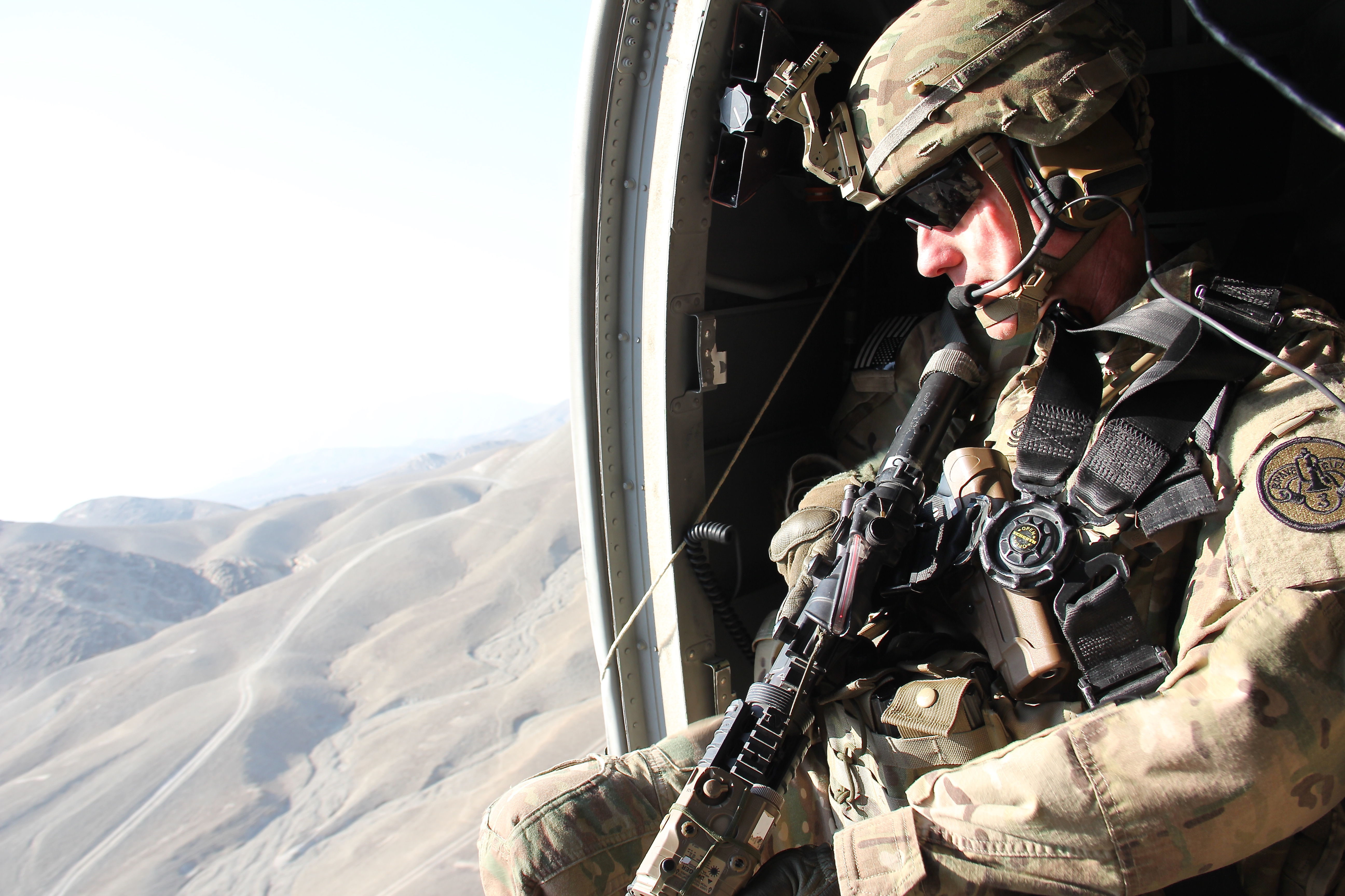 Army Command Sgt. Maj. Heinze, the senior enlisted advisor for 3rd Cavalry Regiment, Train, Advise, Assist Command – East, provides overwatch of the rugged terrain from the open door of a UH-60 Black Hawk helicopter on a trip to advise Afghan police leaders at the Nangarhar police Regional Logistics Center Jan. 6, 2015. (U.S. Army photo by Capt. Jarrod Morris, TAAC-E Public Affairs)